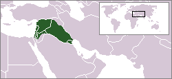 Chaldean Empire ca. 600 BCE.